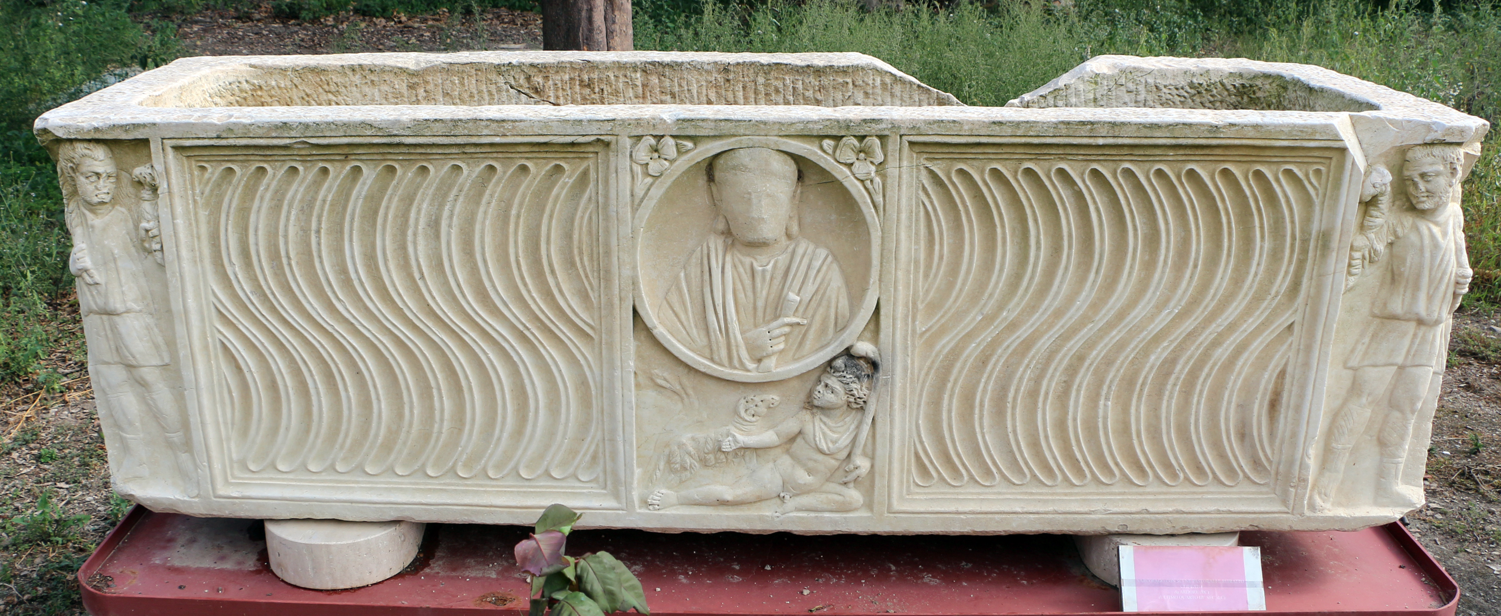 Lokroi Epizephyrioi